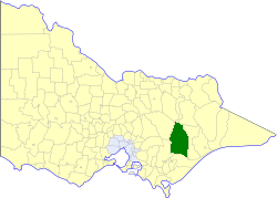 Location of the Shire of Maffra within Victoria.